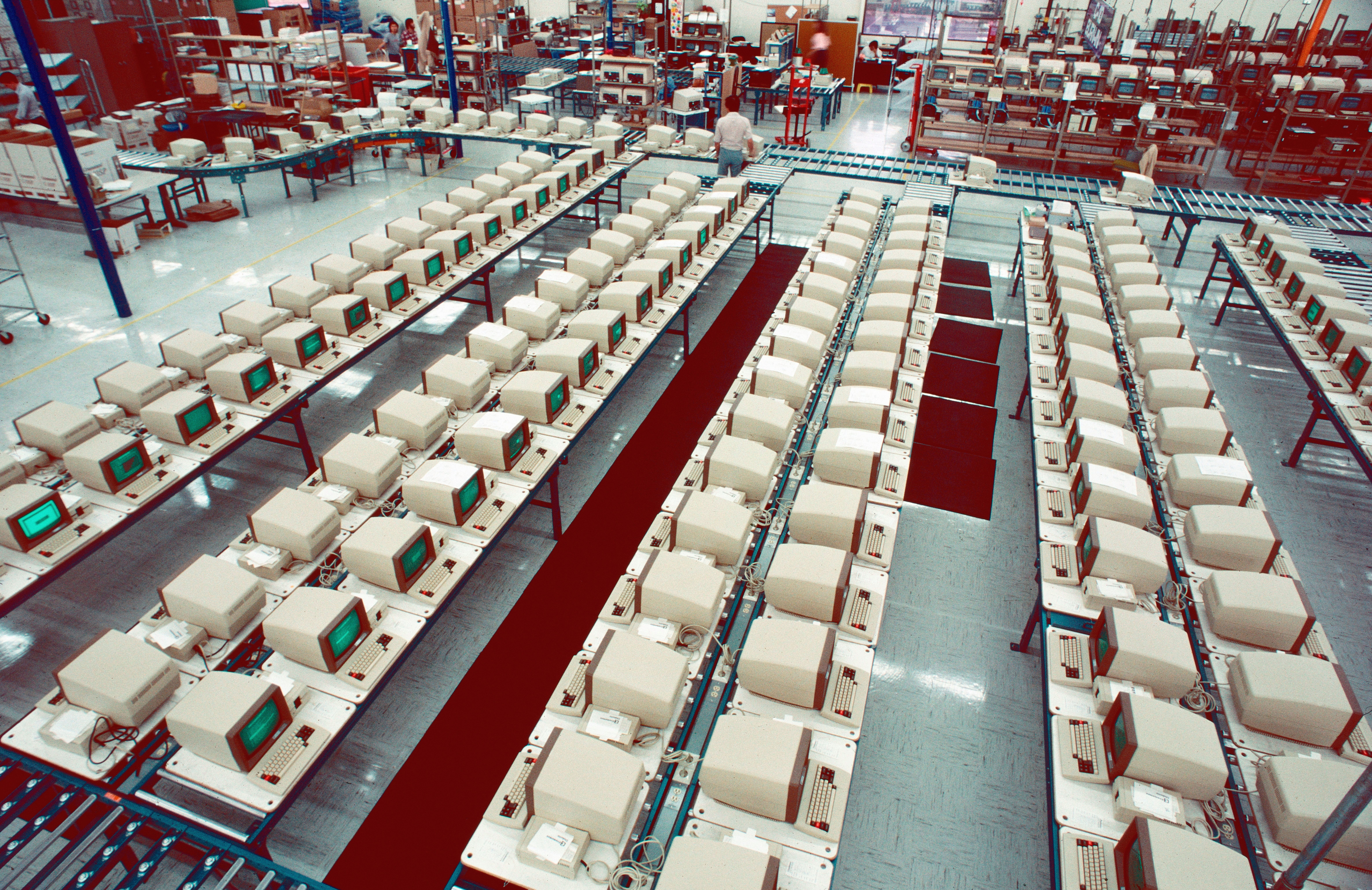 Production line for C-10 personal computer at Cromemco factory in Mountain View, California.